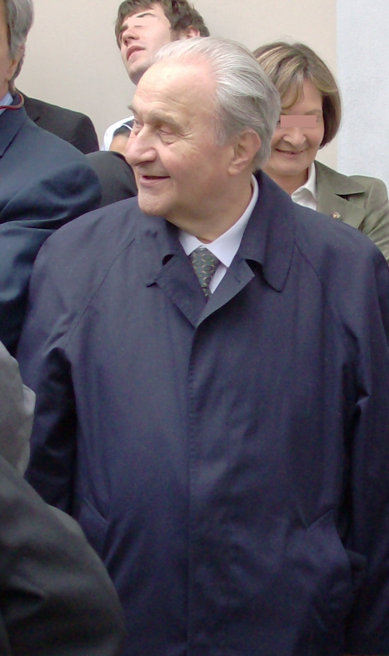 Giuseppe Camadini